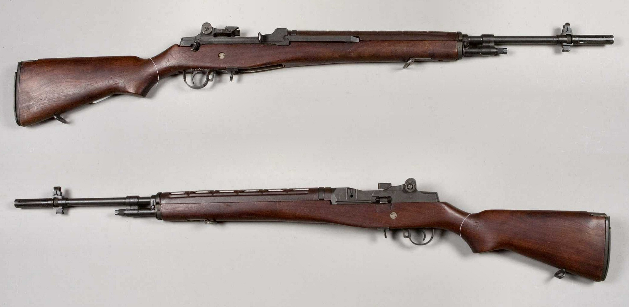 M14 rifle, USA. Caliber 7.62x51mm NATO. From the collections of Armémuseum (Swedish Army Museum), Stockholm.